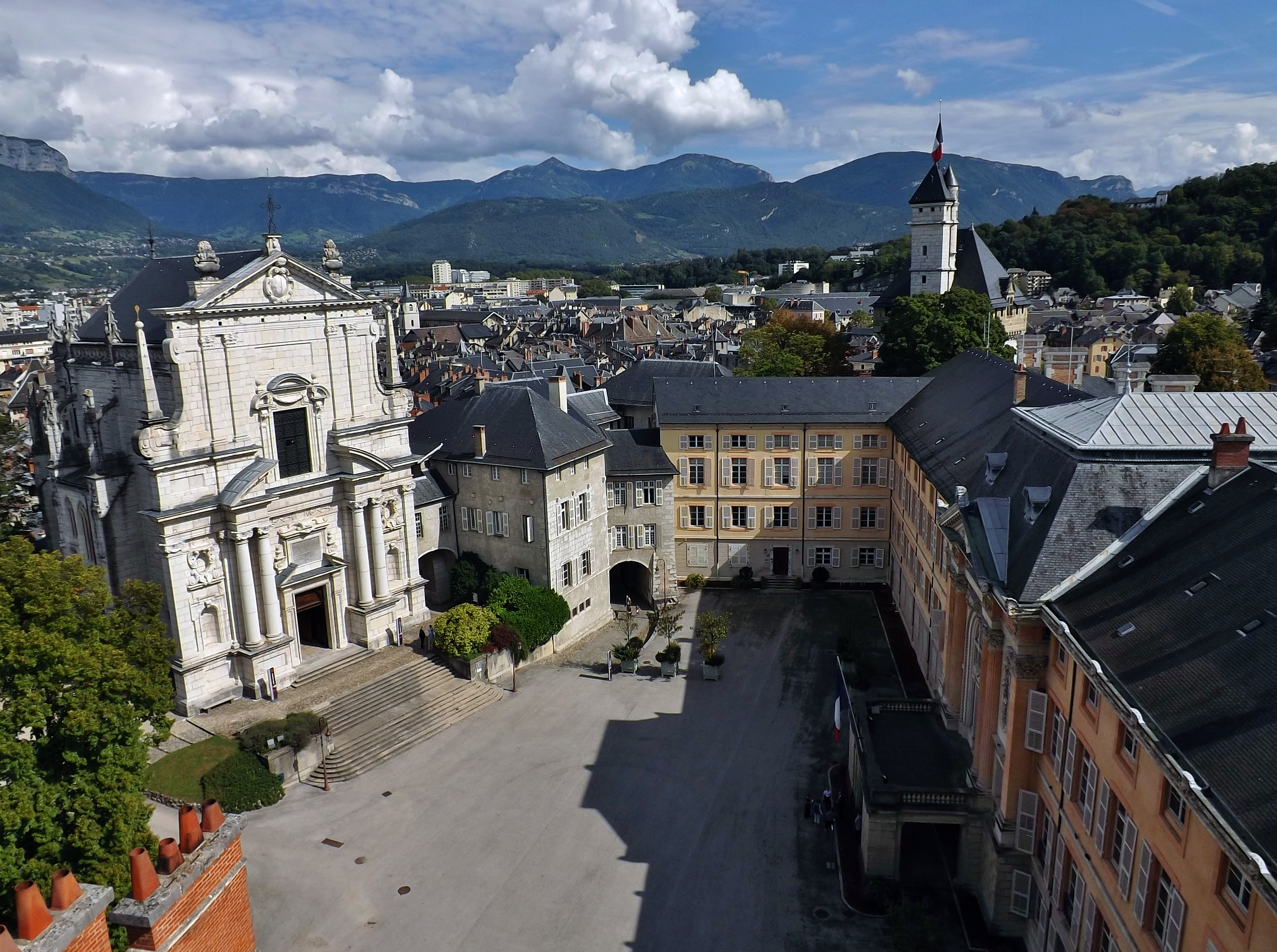 Panoramic sight of the city of Chambéry castle, from the top of the tour demi-ronde tower, in Savoie, France.